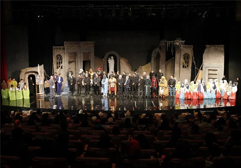 A photo from the closing ceremony for the 2015 performance of Khorshid Karevan in Tehran.